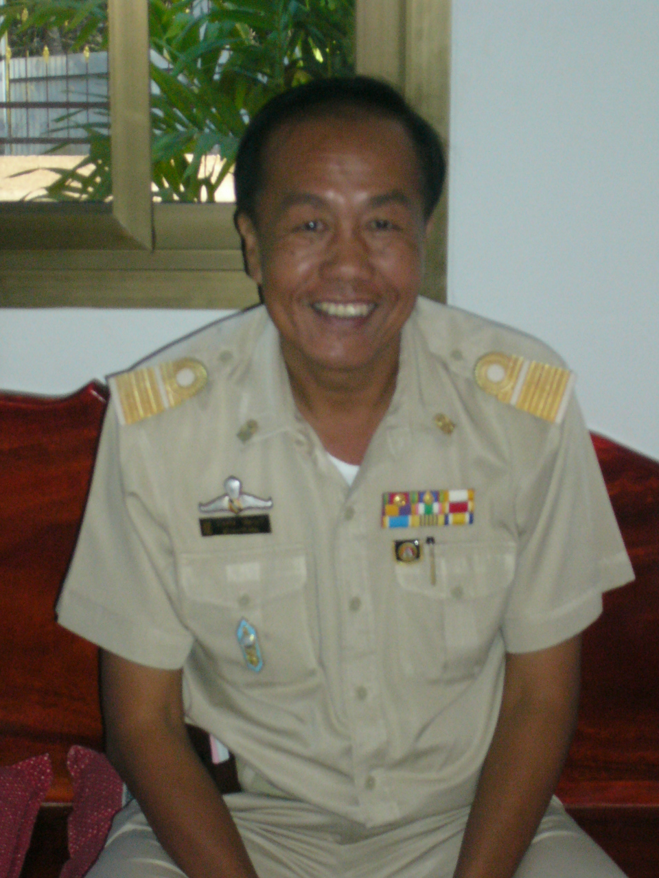 Then-Principal of Na Wa High School wearing his regular uniform (Nakhon Phanom Province, Thailand)